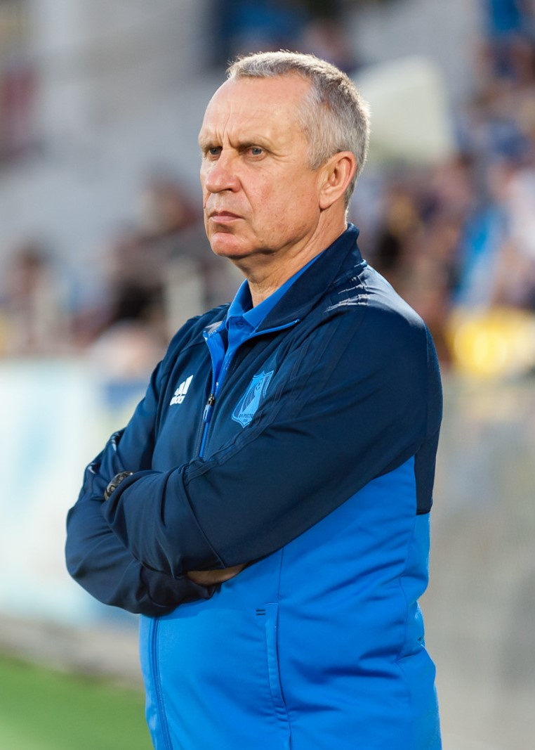 Leonid Kuchuk